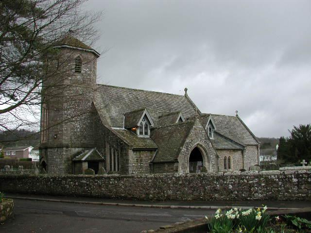 St Arvans, Church of St Arvan.